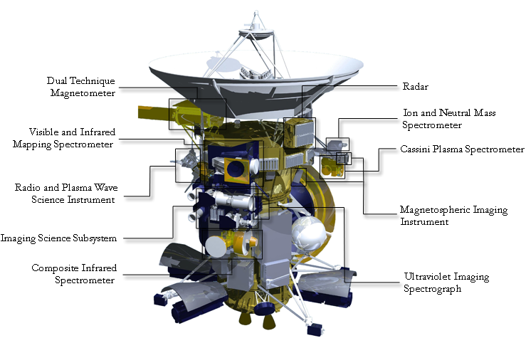 Instruments of Cassini - german